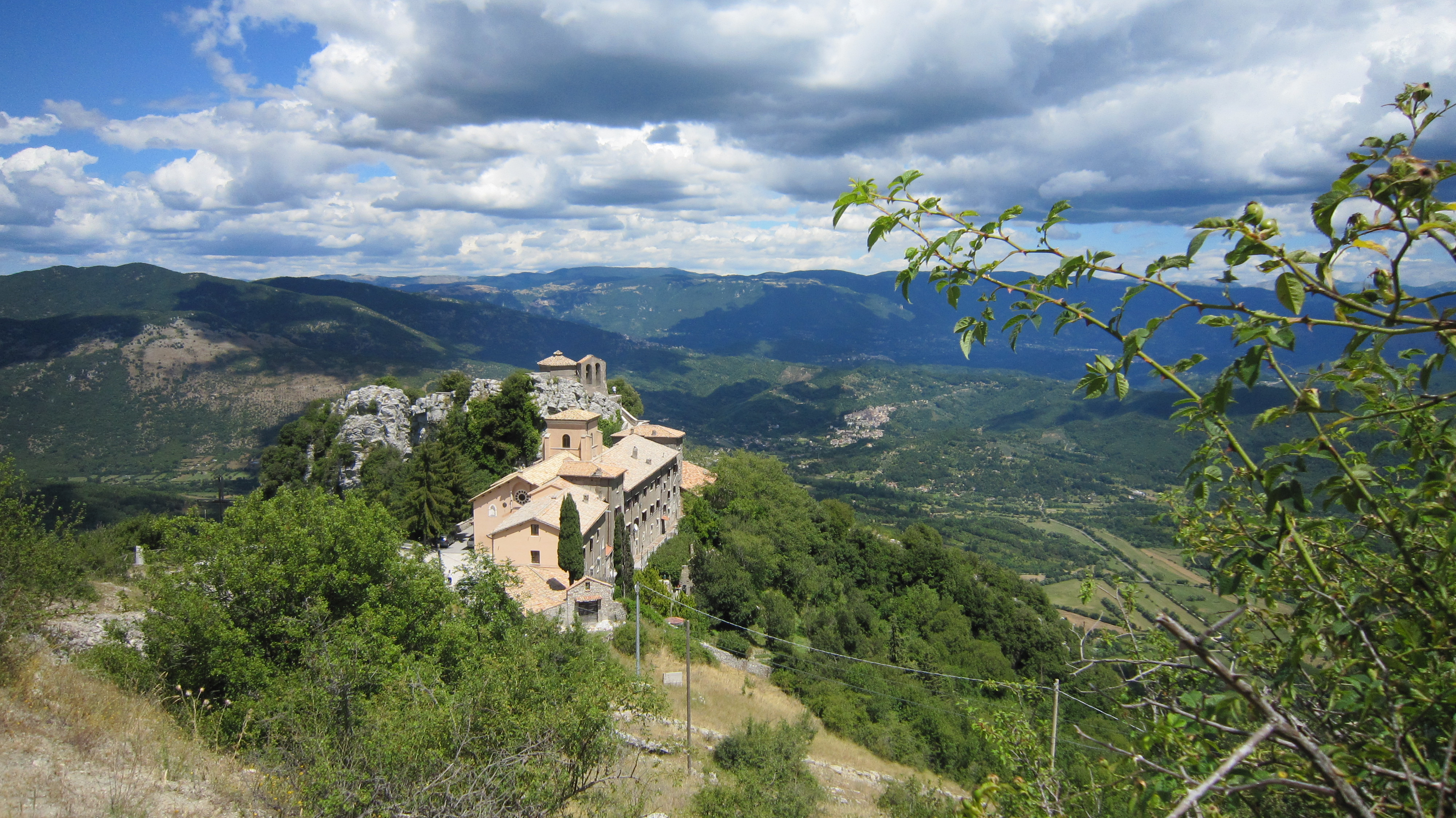 santuario mentorella